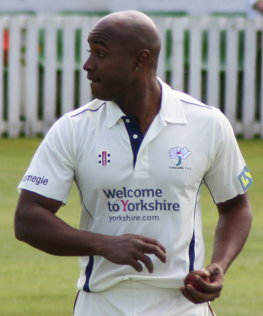 Tino Best at the County Ground, Taunton playing a County Championship match for Yorkshire against Somerset in 2010.